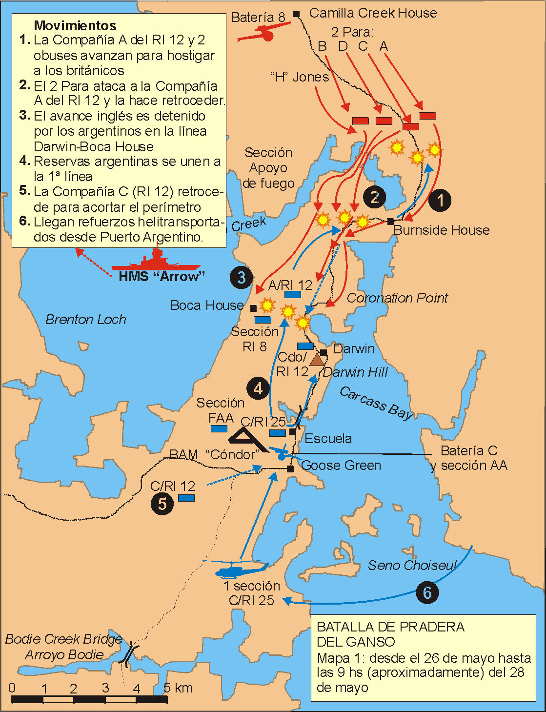 Battle of Darwin-Goose Green. 1st step: initial movements of Argentine Army, and british attack (26-28 May 1982)